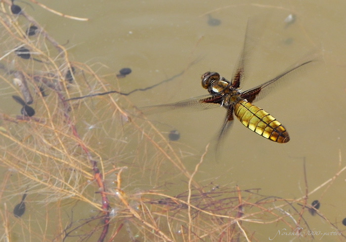 Libellula depressa Broad-bodied Chaser